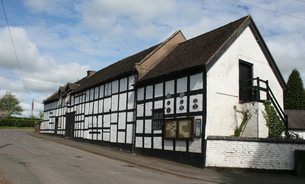 Outhouse of the Swan Inn, Wirswall Road, Marbury, Cheshire, seen from the southeast